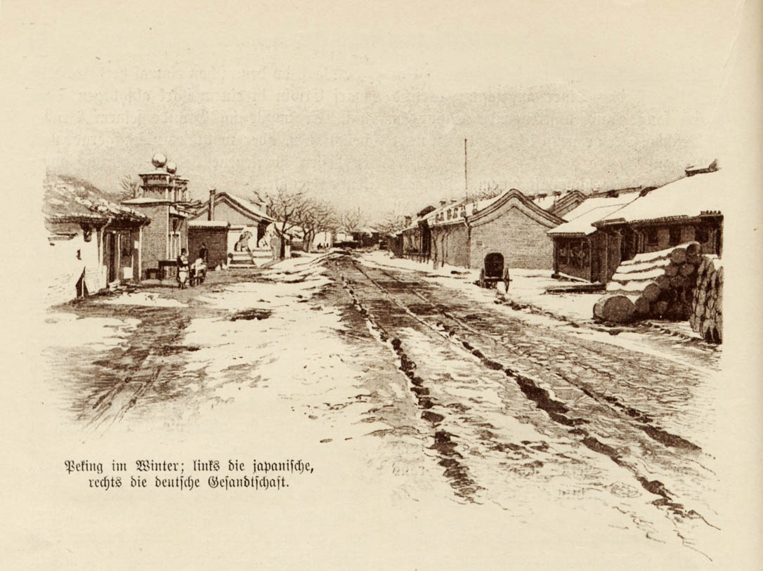 A drawing of Beijing's main road in winter. The text to this picture says (in german): "Beijing in winter; left the japanese, right the german mission". The road is unpaved and muddy, the houses are small and the scene looks rural.